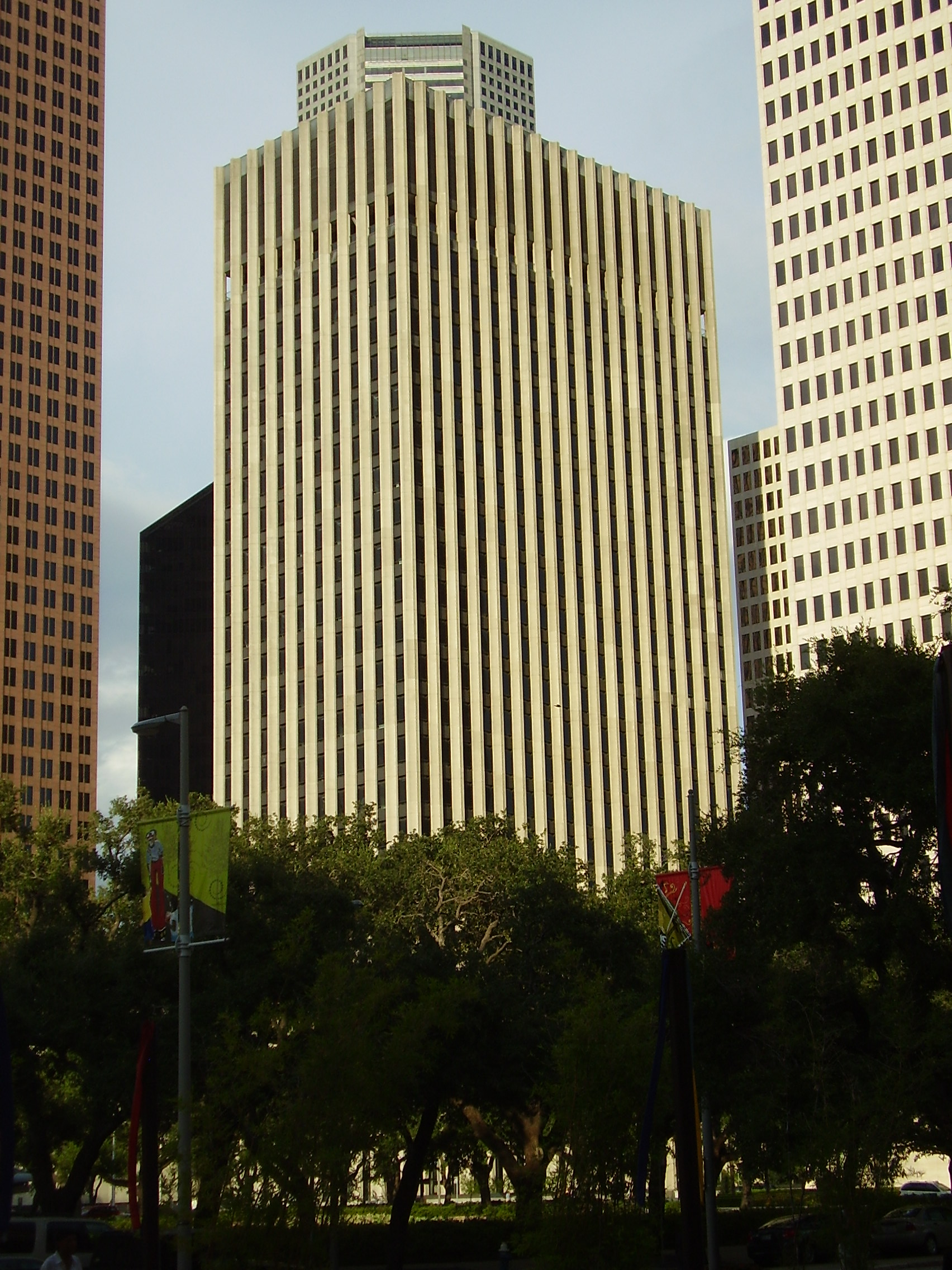 Bob Lanier Public Works Building, the headquarters of the Department of Public Works and Engineering